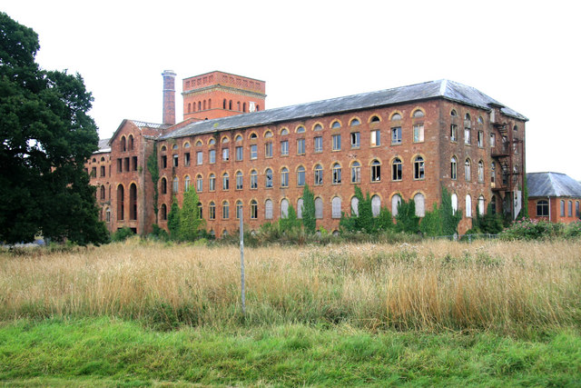 Tonedale Mills in Somerset, now abandoned.